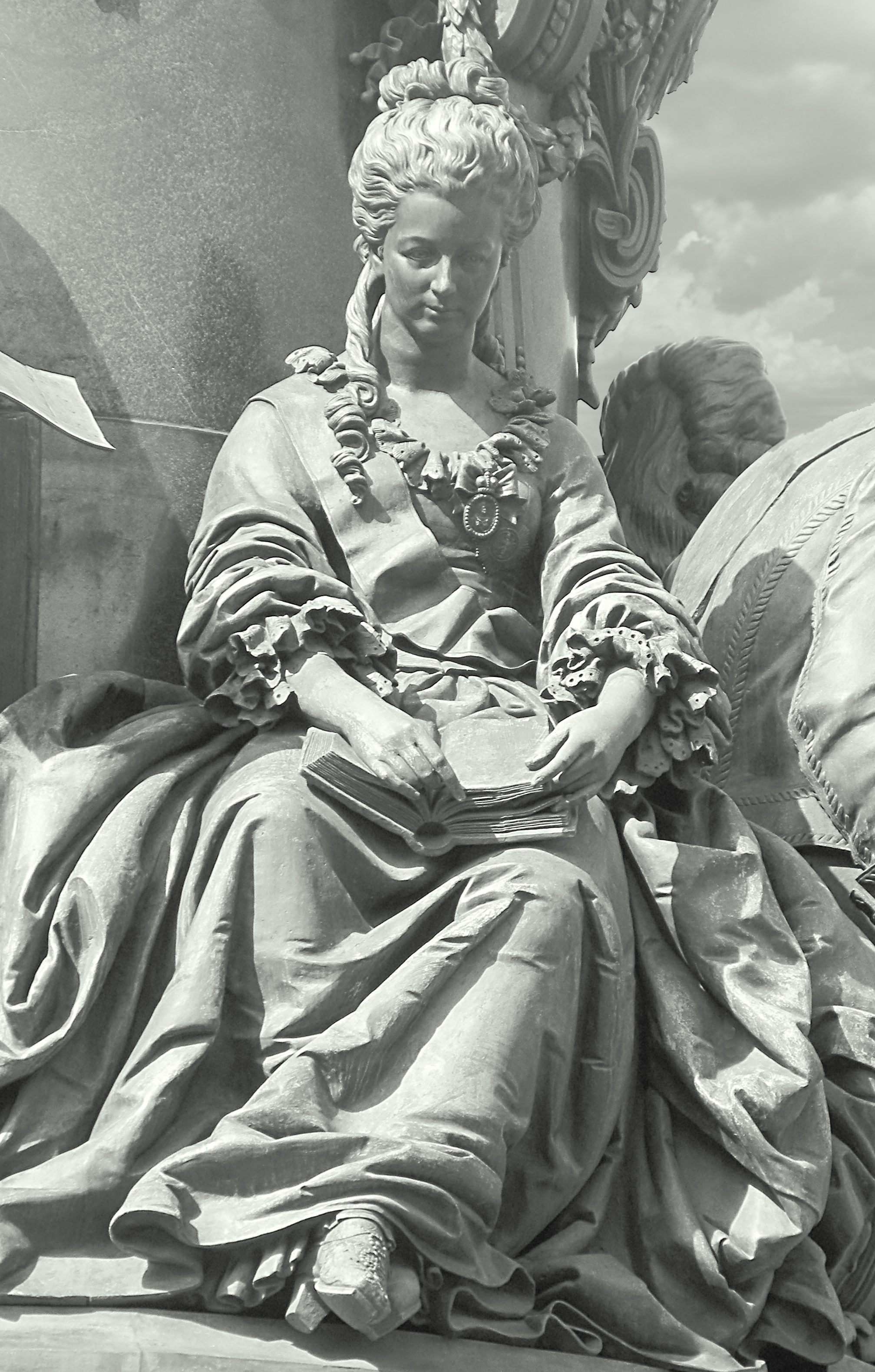 Yekaterina_Vorontsova-Dashkova (Fragment of monuments to Katharina II)